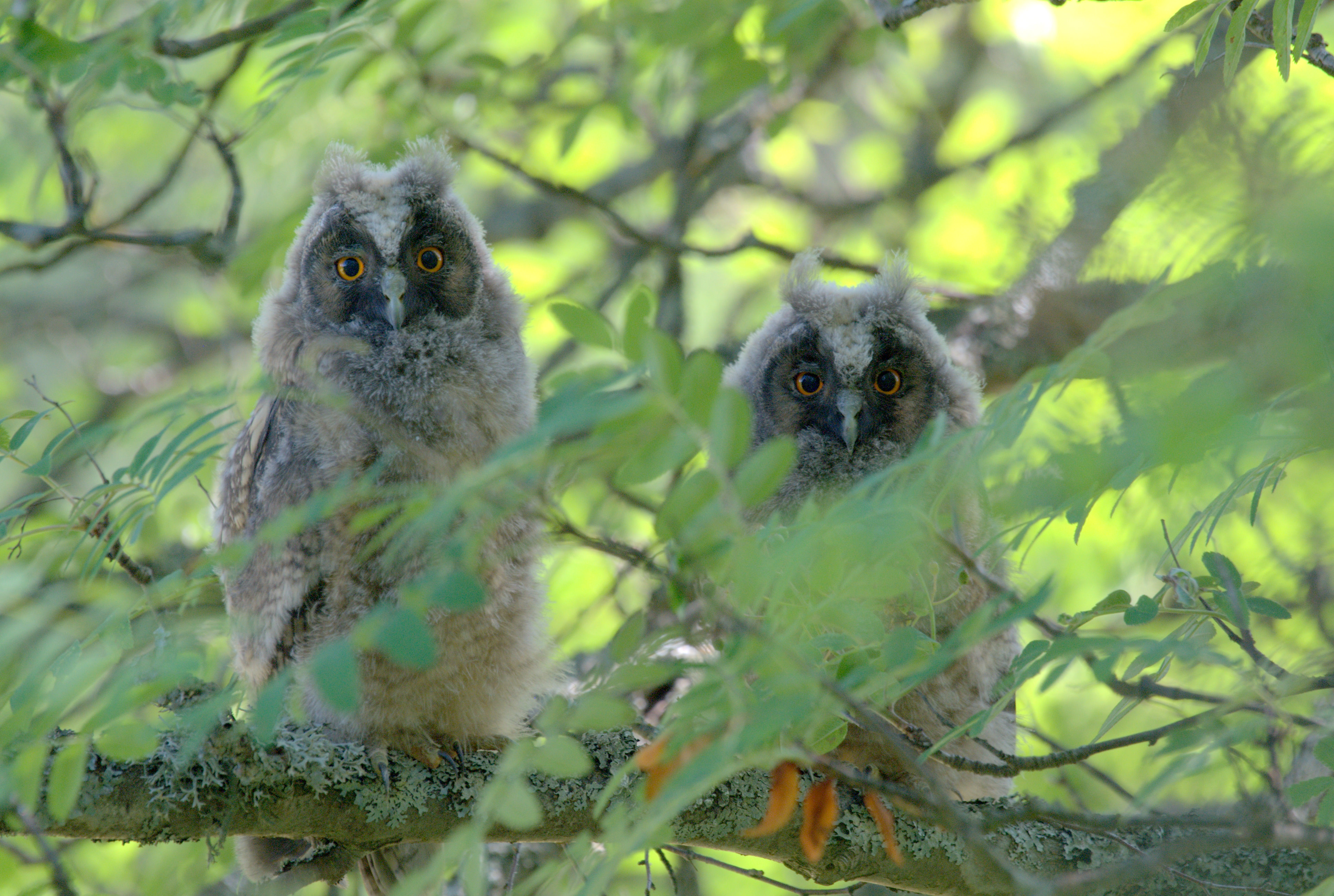 Long-eared owl (Asio otus) chicks